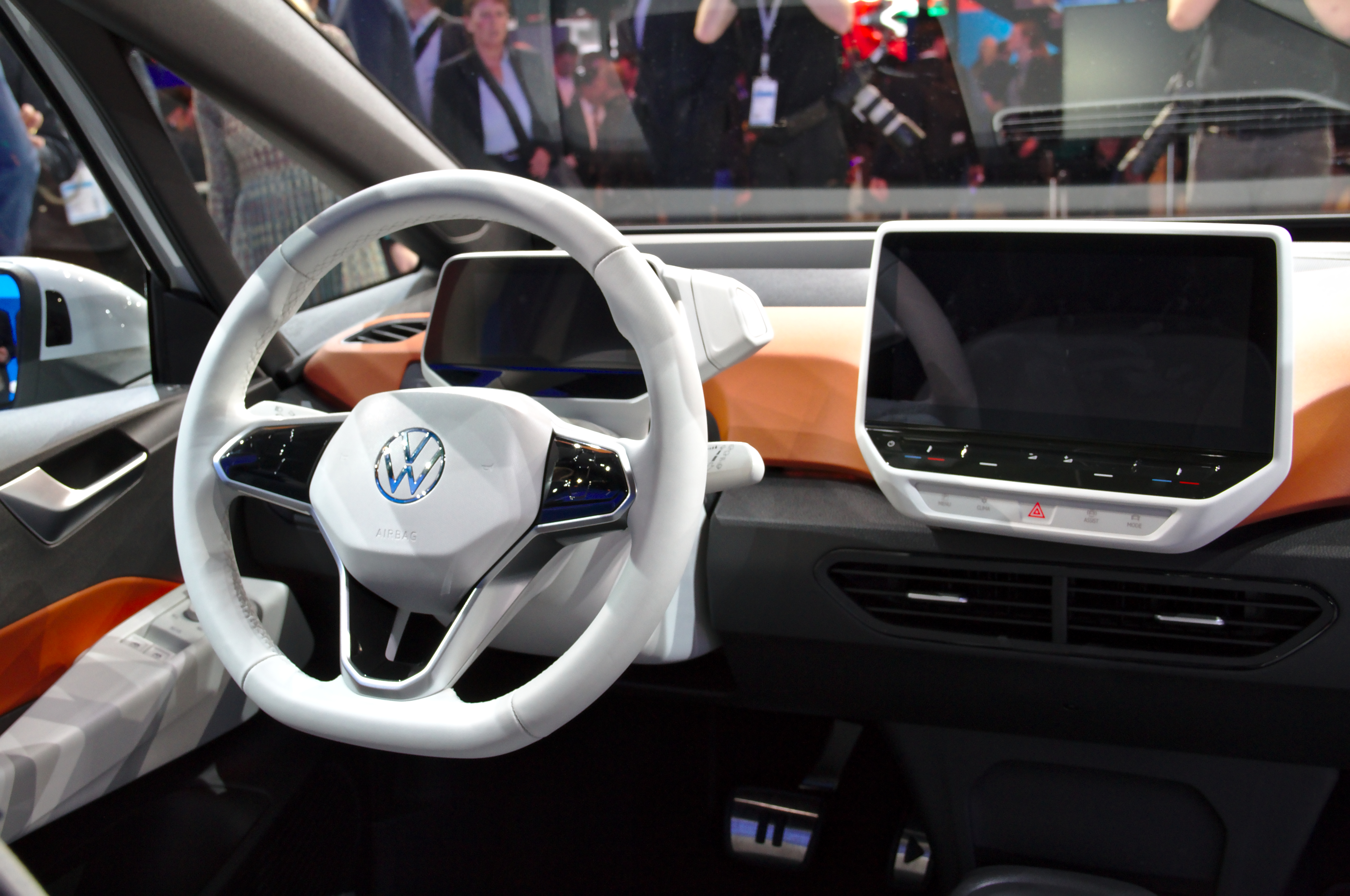 Volkswagen_ID.3 at IAA 2019